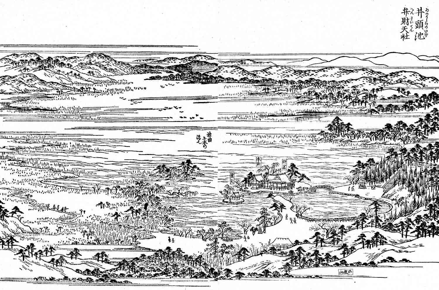 Inokashira pond near Tokyo with Benzaiten-shrine